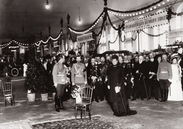 Ceremonial opening of the III All-Russian (International) Exhibition in Petersburg, at Mikhailovsky manege. In the centre: Grand Duke Boris Vladimirovich of Russia